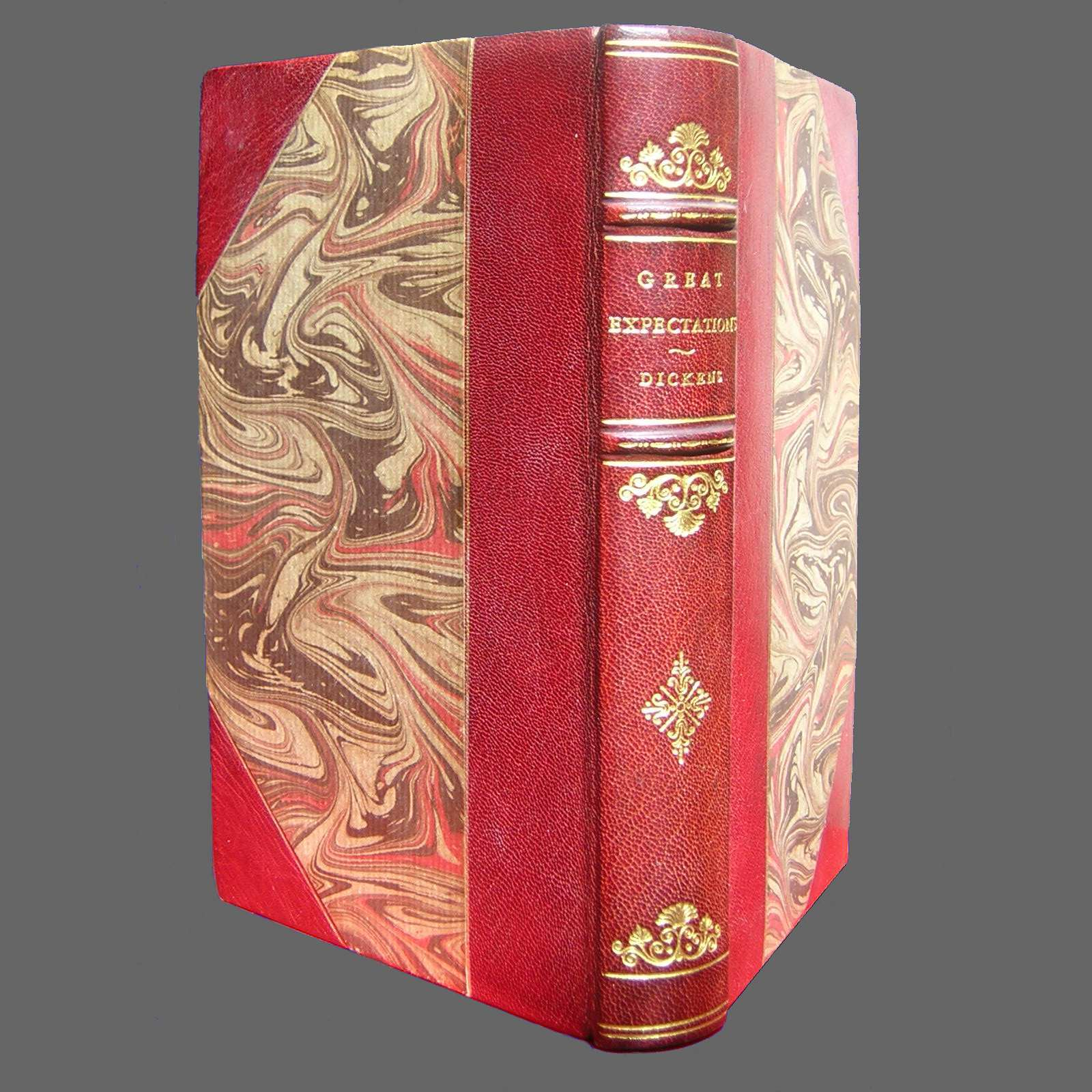 An example of a half leather custom binding. 7.25 inches (184 mm) x 5 inches (130 mm)